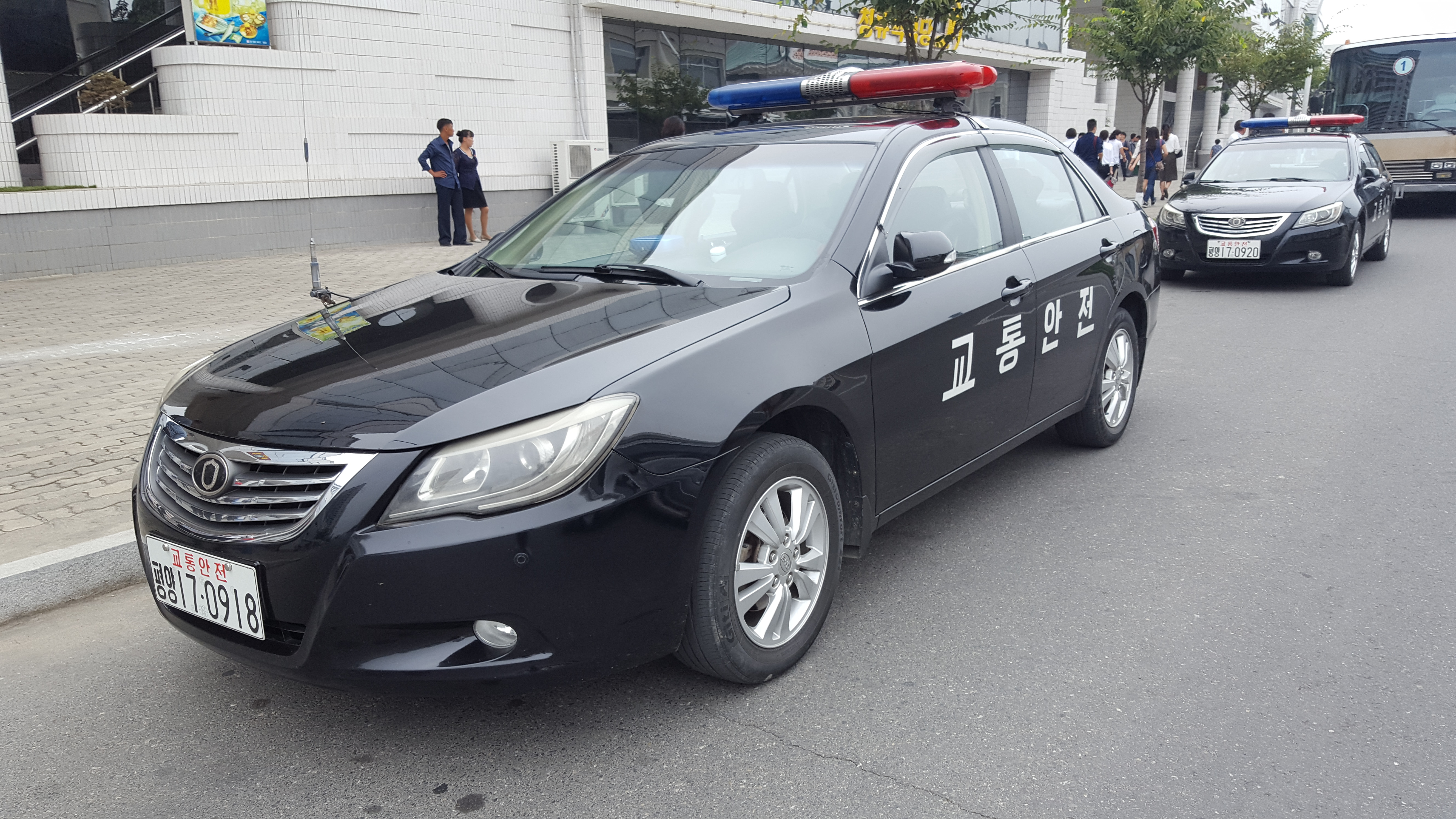 A police car parked outside Okryu Restaurant, Pyongyang